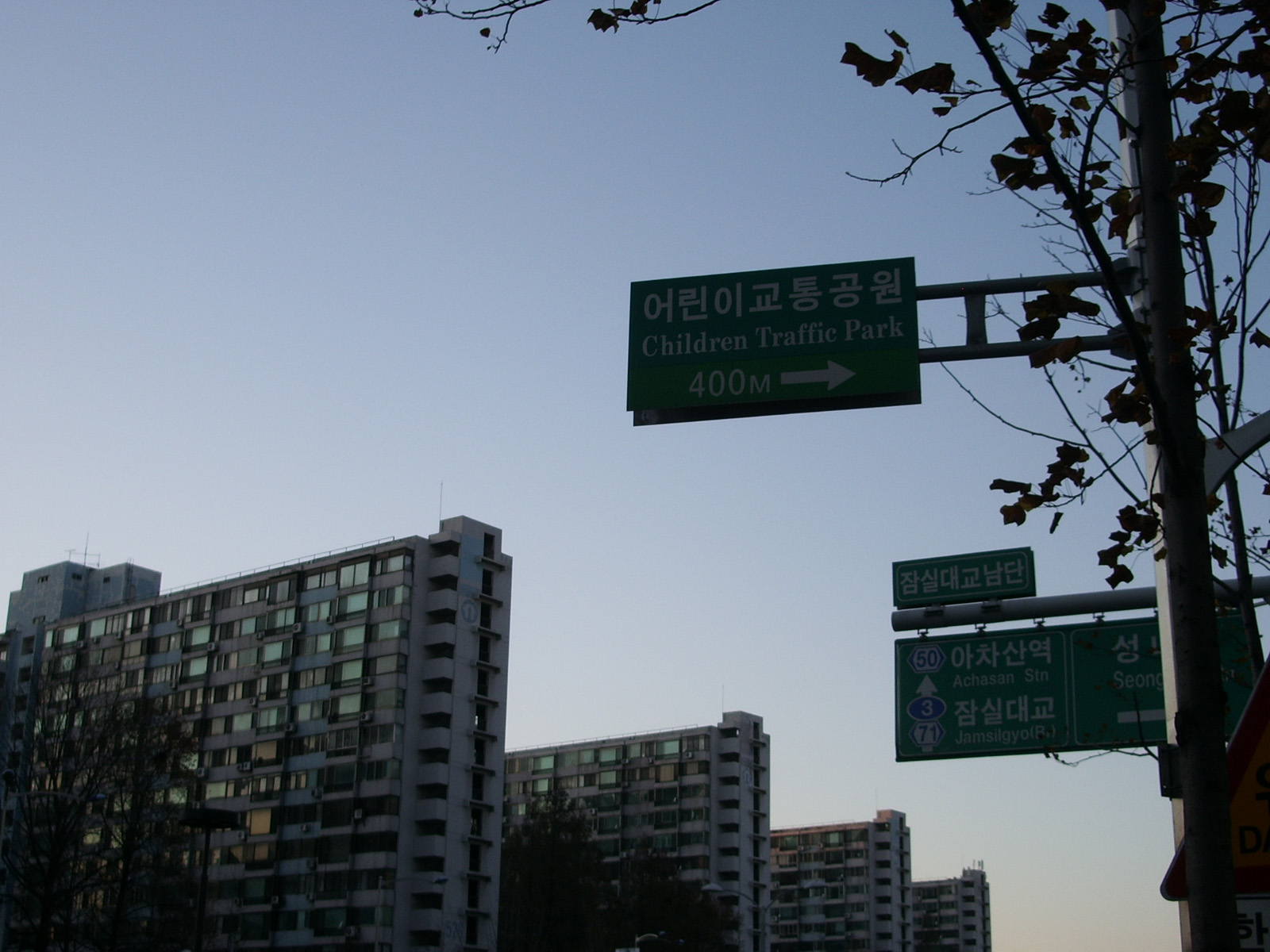 Jamsil (蠶室, "Silk Room") used to be a floodplain where silkworms were raised. In the 1960s, to cope with Seoul's population growth, the floodplain was filled, and the government developer, Korea Housing Authority, started building apartments there. Unlike Phases 1-4 which were coal-fired 5-story buildings with no elevator (and lucky to have indoor plumbing), Phase 5, built in the mid-1970s and standing 15 stories tall, was state-of-the-art for its time, with elevators, heating via hot water piped in from a central boiler plant, and for those few lucky enough to own a private car, ample parking (woefully inadequate today, of course). Jamsil really boomed, as it was annexed into Seoul in 1973, subway service and Olympic facilities were added in 1980, and Lotte World opened in 1989 right after the Olympic Games. Today, Phase 5 looks very dated - Phase 1-4 were so obsolete they were demolished and replaced with state-of-the-art 30-story luxury highrises (free right to move in for displaced former residents per Korean law). I am just across from the complex, on the other side of National Highway 3. This also happens to be, as indicated on the road signs, the southern anchorage for Jamsil Bridge, which crosses the Han River to carry National Highway 3 further north, toward Achasan Fortress (and beyond to Uijeongbu, Dongducheon, and Wonsan in North Korea). 400 meters to my right (east) is a children's traffic park, one of several in Seoul, where children, traveling around on foot, on a bicycle, or on a quadricycle in an enclosed street layout, can learn traffic regulations first hand, so that they can grow up safely without getting into traffic accidents and eventually become safe drivers as grownups. Indeed when I made Phase 5 my home as a young child, I did visit that traffic park once.